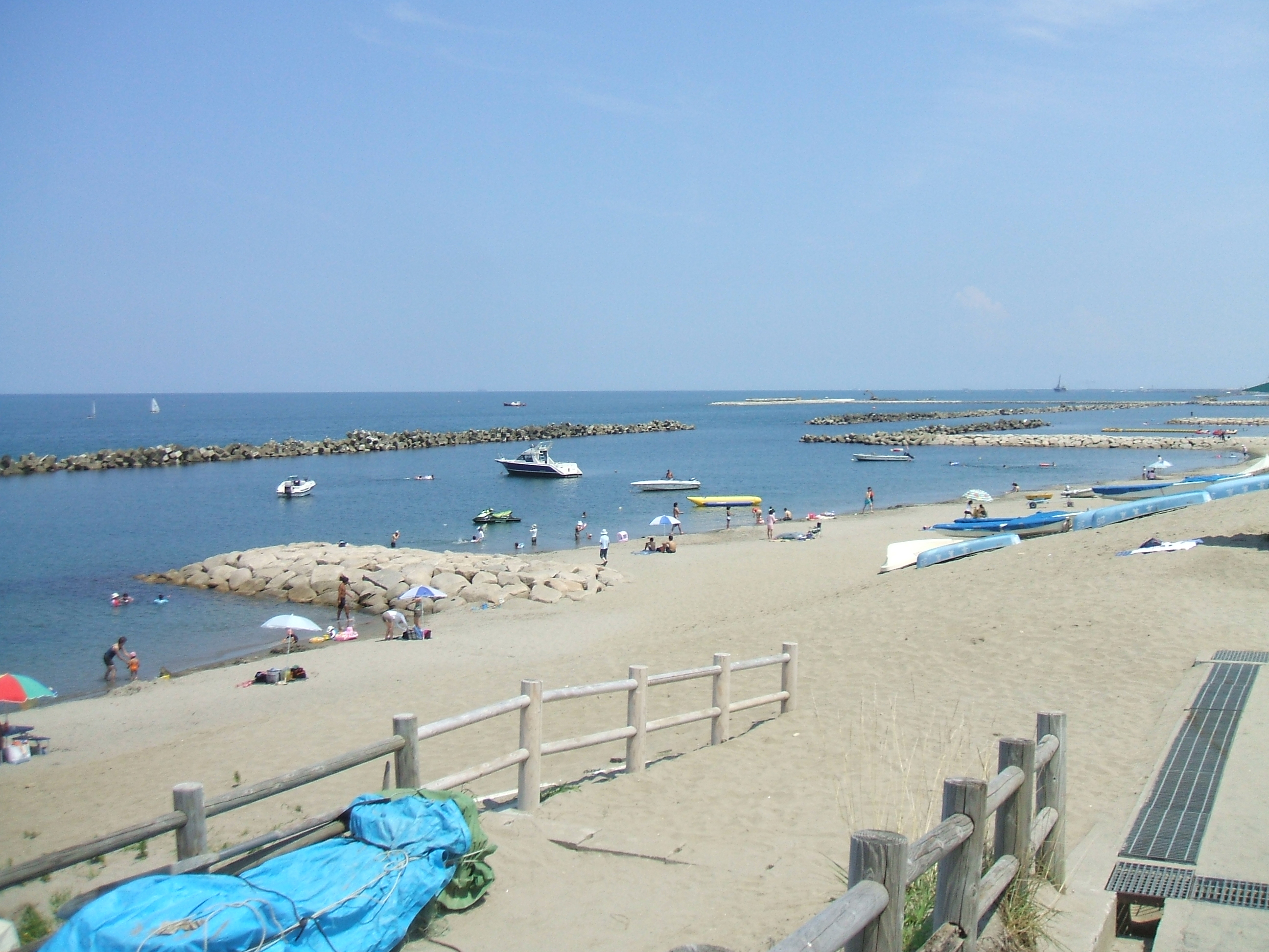 This is landscape of Sekiyahama at Tyuou-ku, Nigata City.